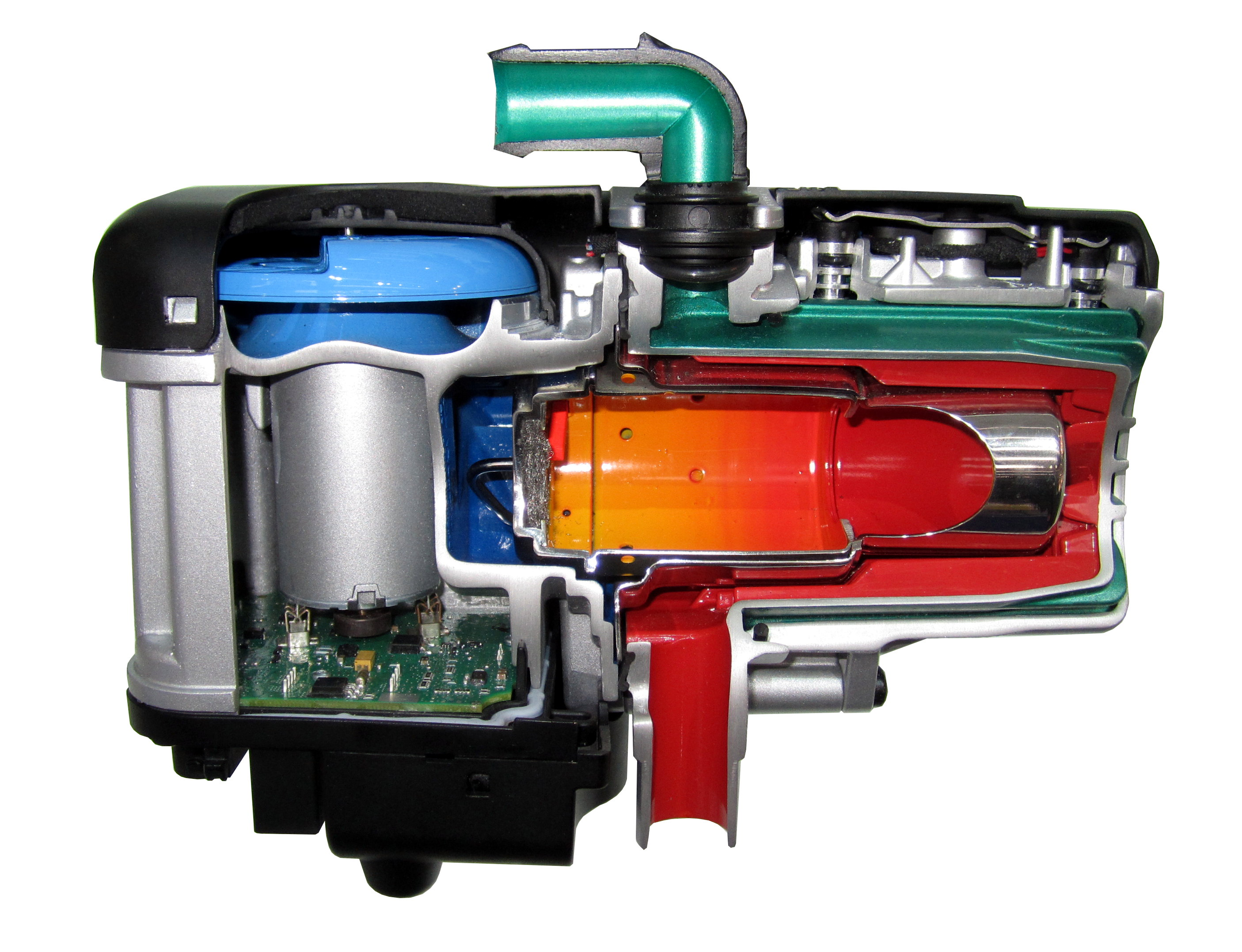 independent vehicle heater / block heater for vehicles